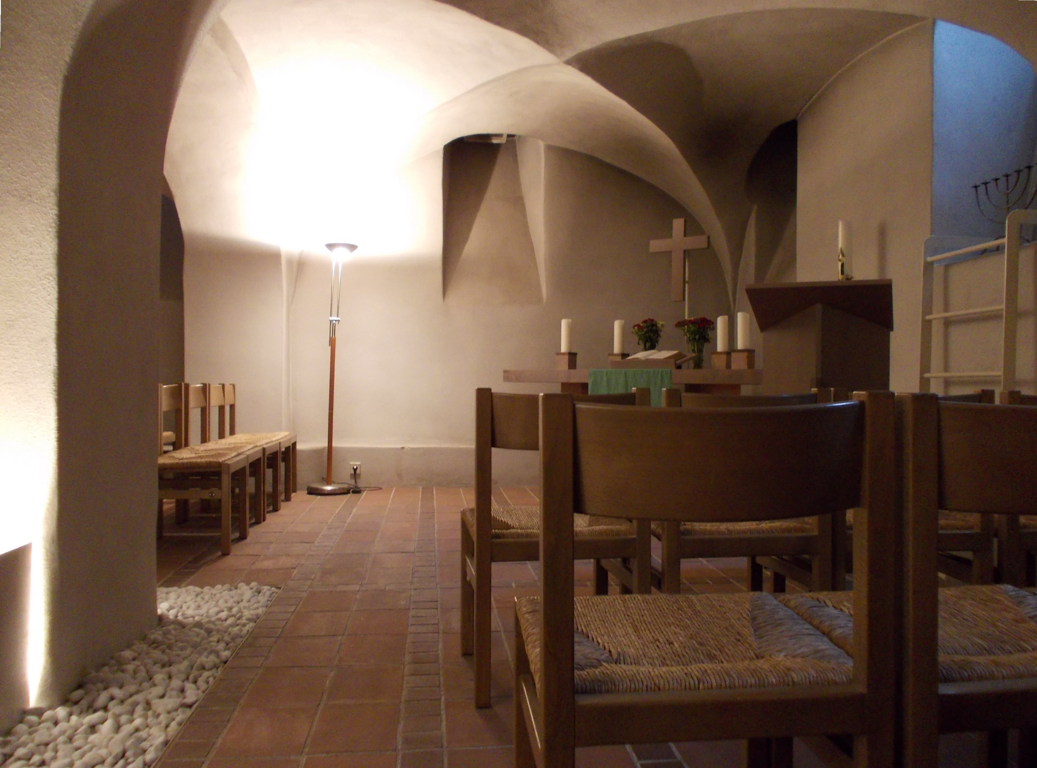 St. George's Chapel in the Francke Foundations, house 24, in Halle/Saale (Saxony-Anhalt)